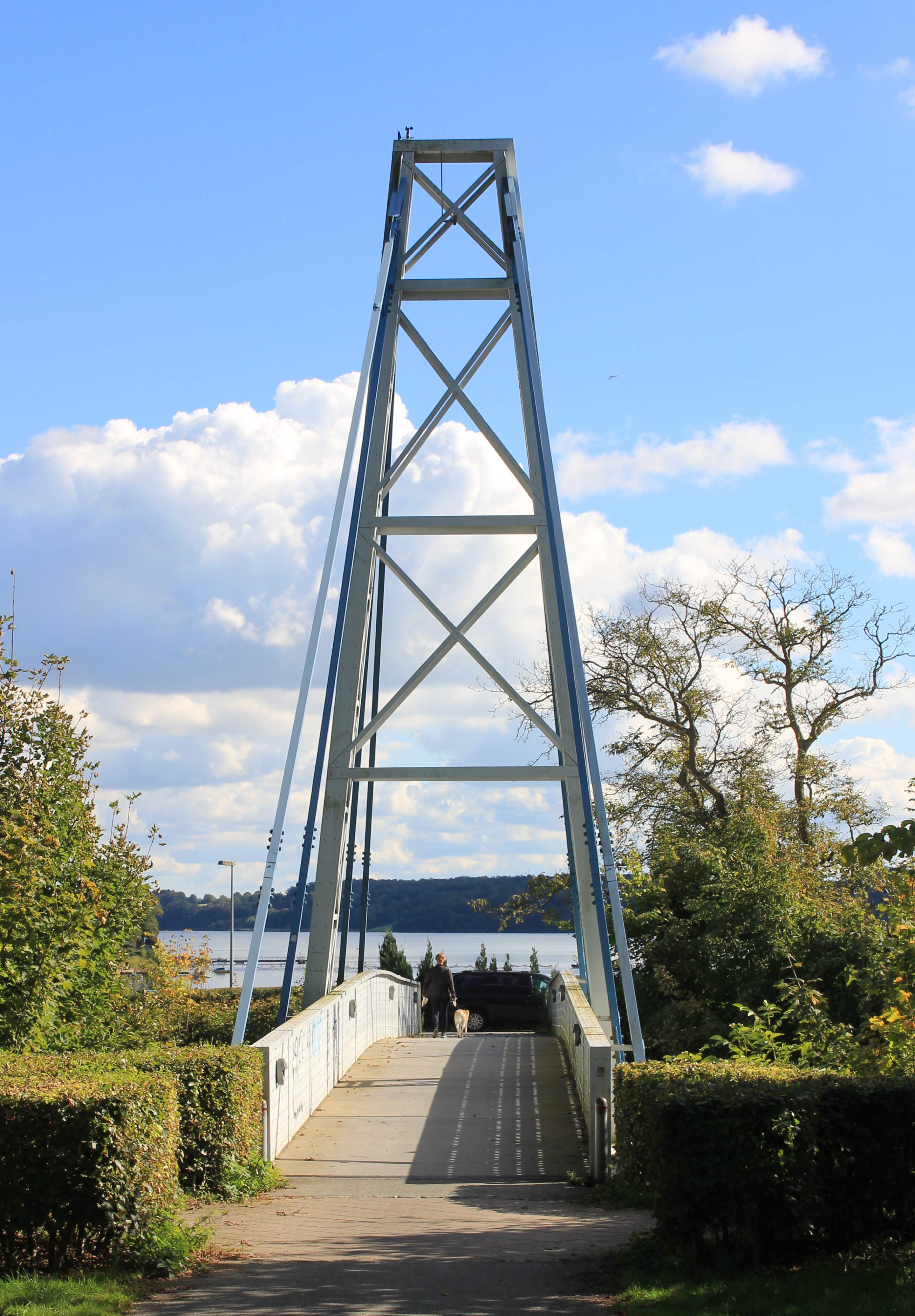 Fiber Line Bridge is one of the world's largest fiberglass composite bridges and the first to cross a railway line, which increases the requirements for the bridge. It is located in Kolding, Denmark. The bridge was built in 1997 as a collaboration between the Municipality of Kolding, FiberLine Composites and Rambøll. It is Scandinavia's first composite bridge. The bridge weighs 12 tonnes, which is half of a bridge in metal / concrete. Another of the advantages of fiberglass composite is that it is almost maintenance-free. Since its construction in 1997, there have only been removed graffiti and algae. The bridge is also not affected by rain, frost and salt. Lifespan is at least 100 years. Technical data: Length, total 40 m Length, bridge section 1 27 m Length, bridge section 2 13 m Width, total 3.2 m Tower, height 18.5 m Total weight 12 tons Capacity 500 kg/m2 Capacity, running load 5 tons Maximum wheel pressure 1.8 tons The maximum deflection L/200 13 cm Number stag 8Dansk: Fiberline-broen er en af verdens største glasfiber-kompositbroer og den første der krydser en jernbanelinje, hvilket øger kravene til broen. Den ligger i Kolding, Danmark. Broen blev opført i 1997, som et samarbejde mellem Kolding Kommune, Fiberline Composites og Rambøll. Det er Skandinaviens første kompositbro. Broen vejer kun 12 tons, hvilket er det halve af en bro i metal/beton. En anden af fordelene ved glasfiber-komposit er, at den er næsten vedligeholdelsesfri. Siden opførelsen i 1997, er der kun blevet fjernet graffiti og alger. Broen påvirkes heller ikke af regn,frost eller salt. levetid er mindst 100 år. Tekniske data: Længde, total 40 m Længde, brosektion 1. 27 m Længde, brosektion 2. 13 m Bredde, total 3,2 m Tårn, højde 18,5 m Totalvægt 12 tons Bæreevne 500 kg/m2 Bæreevne, kørende last 5 tons Maksimum hjultryk 1,8 tons Maksimum nedbøjning L/200 13 cm Antal stag 8